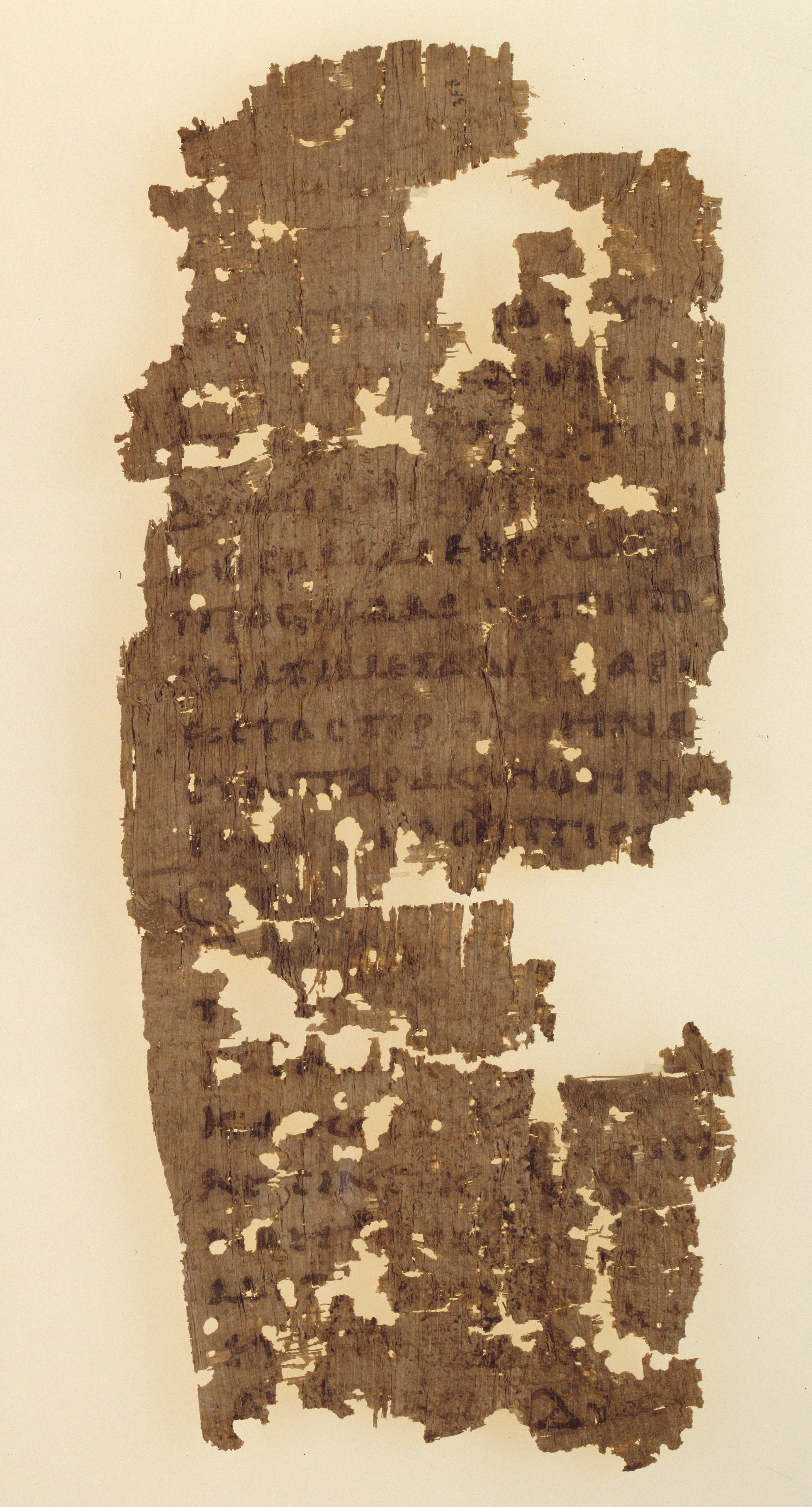 Papyrus 26 - Papyrus Oxyrhynchus 1354 - Bridwell Papyrus 1 - Epistle to the Romans 1:1-16 - verso